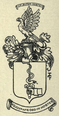 O'Donovan arms from the 1912 Burke's Genealogical and Heraldic History of the Landed Gentry of Ireland, printed in London.